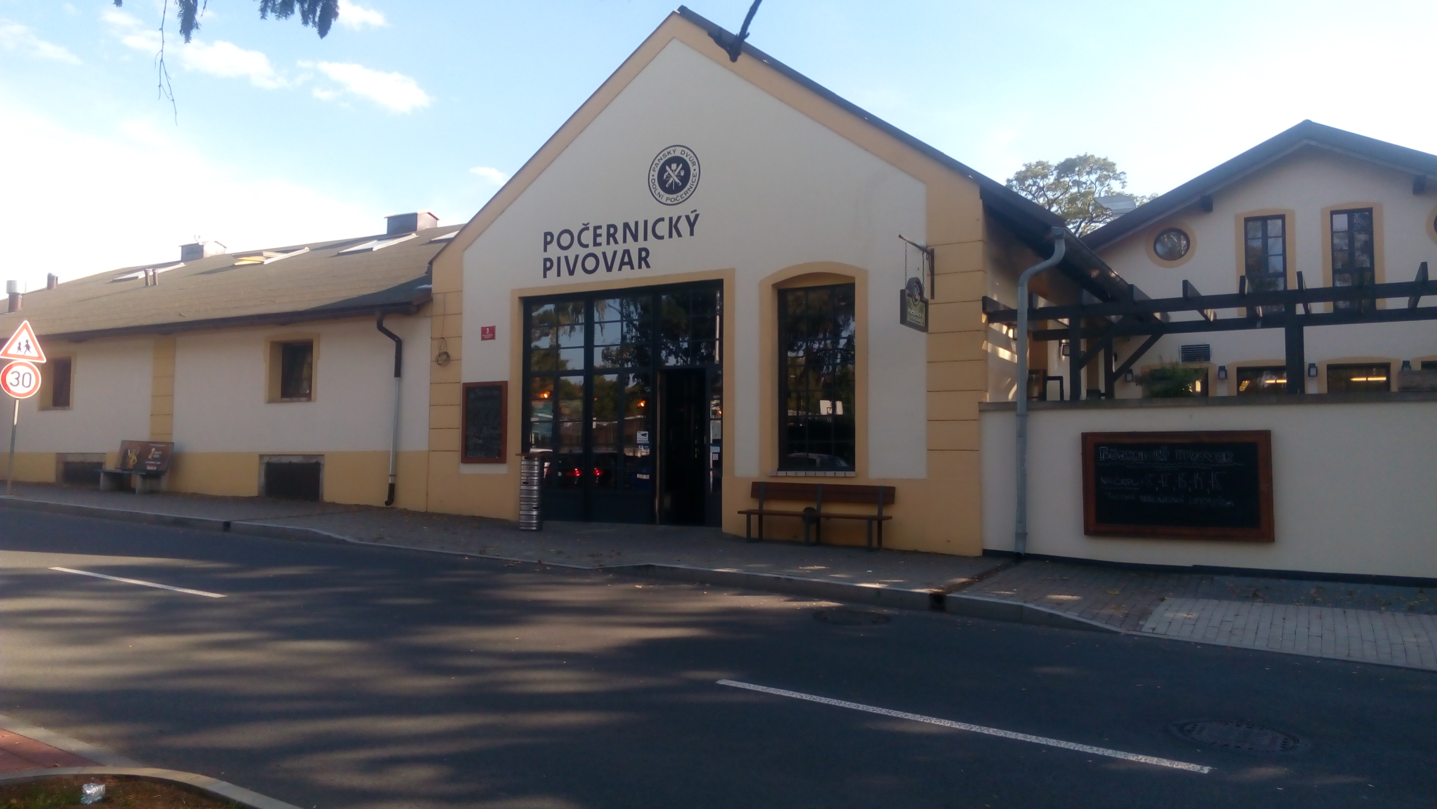 A brewery in Dolní Počernice, Prague, 2018.